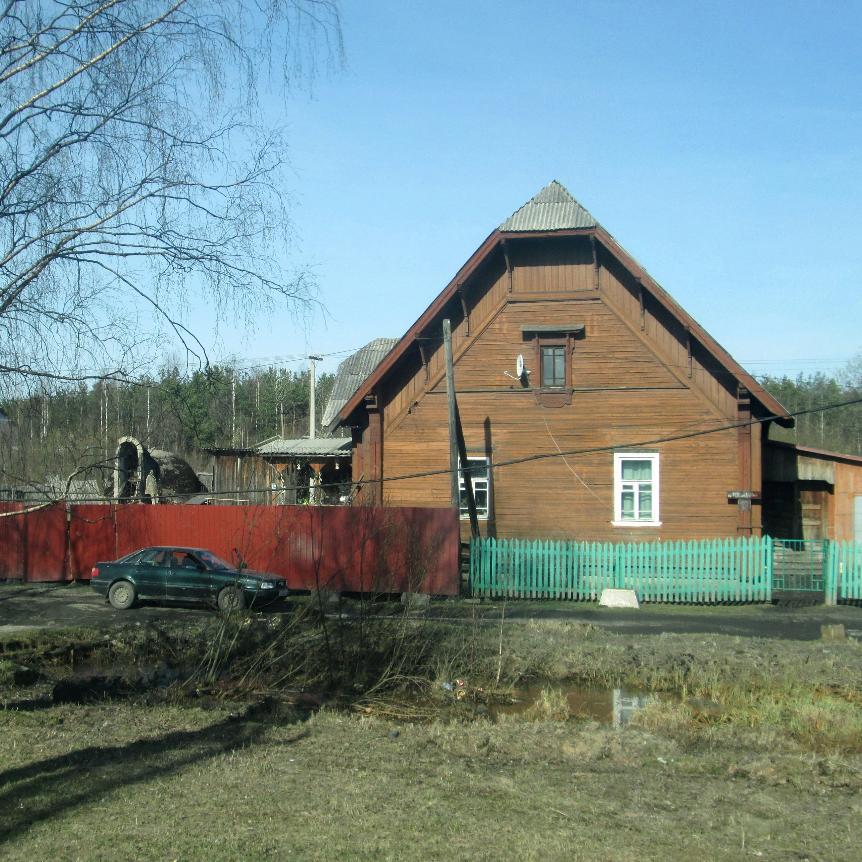 View of house No.13 at Vokzal'naya Street in Konosha.